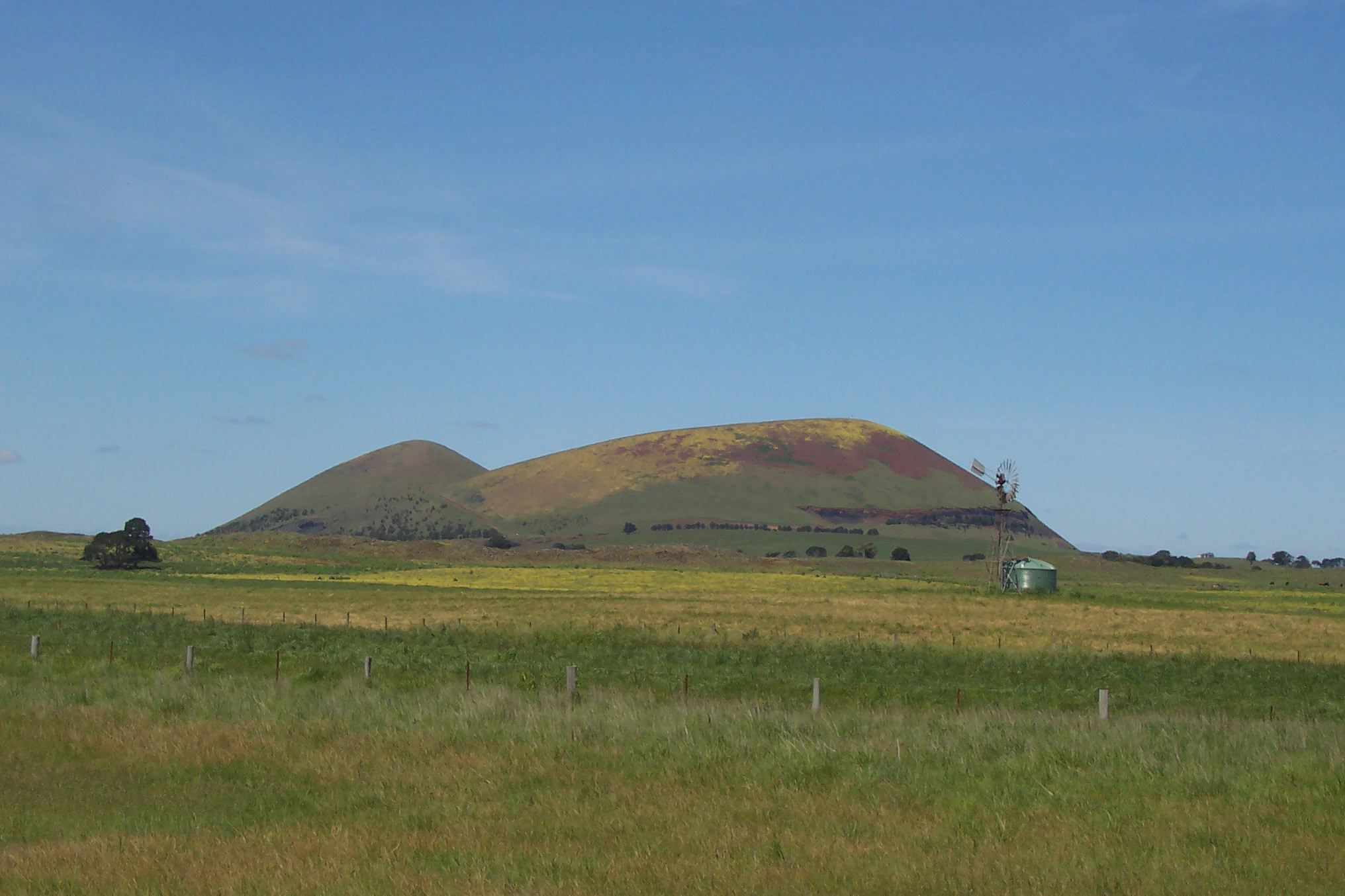 Subject: Mount Elephant. Updated Photo. Date: 20.10.10 Photographer: Ivor Coster Website